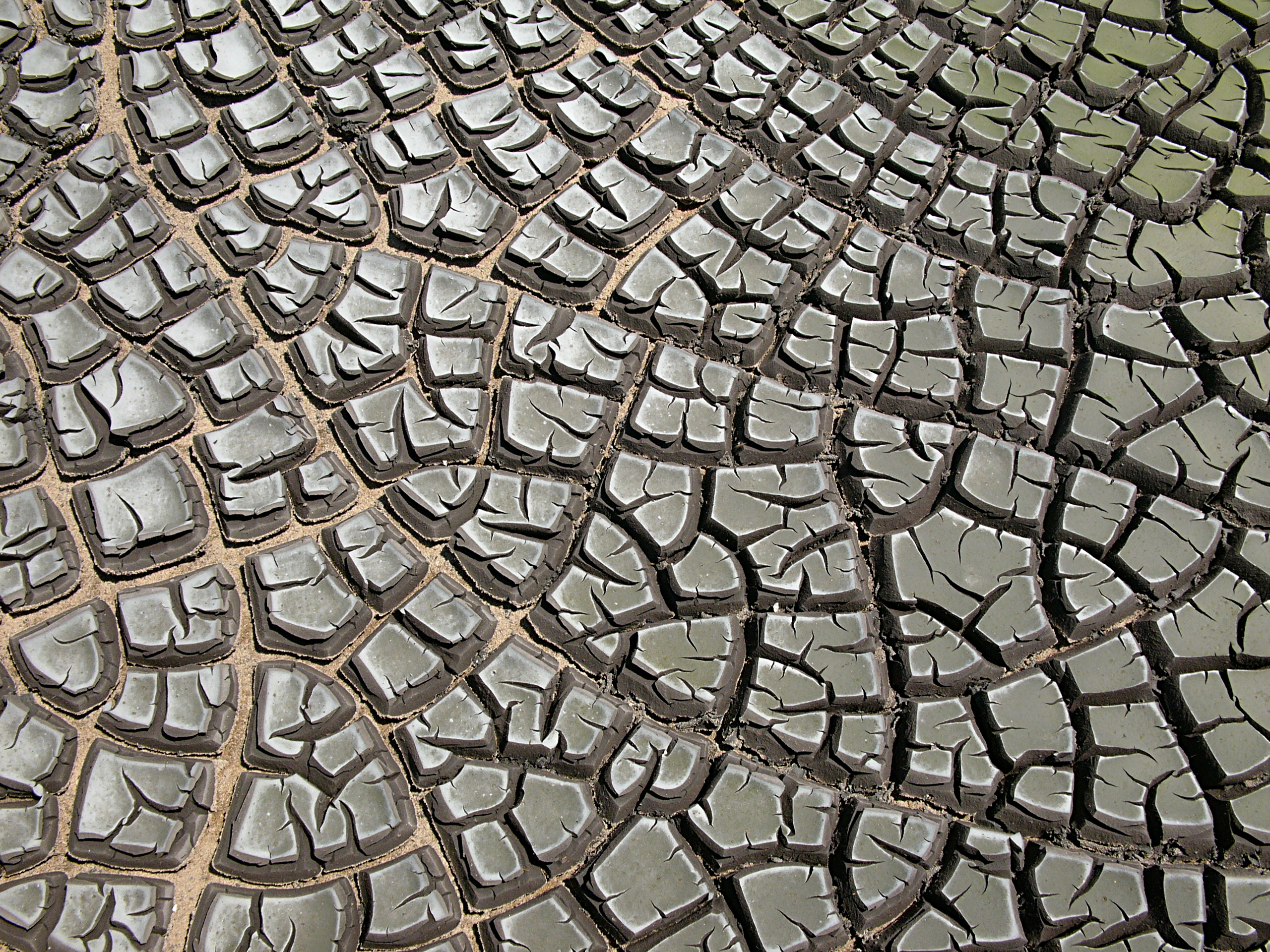 Desiccation cracks in dried sludge of a sewage plant.